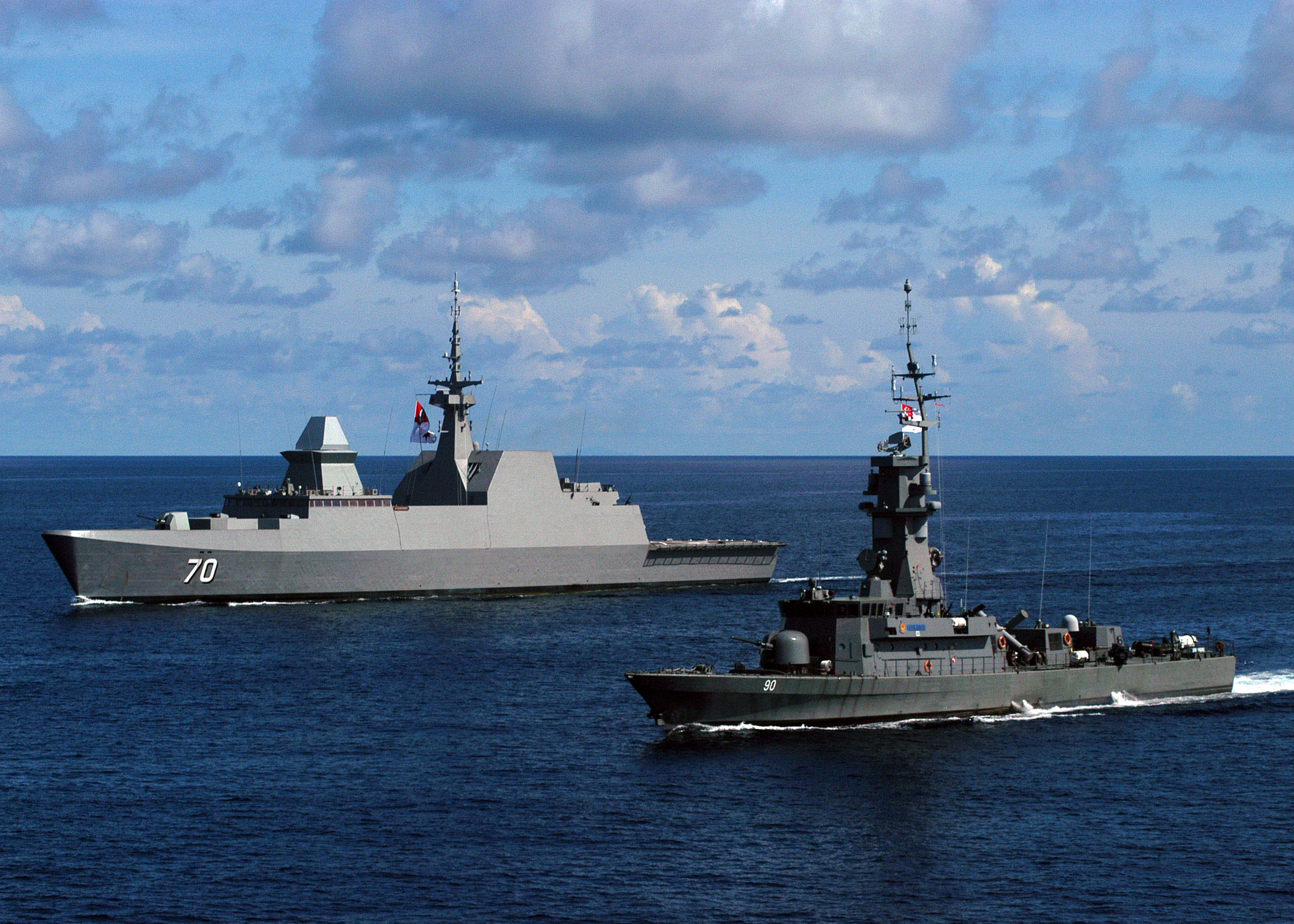 SOUTH CHINA SEA (July 16, 2010) The Singapore navy guided-missile frigate RSS Steadfast (FFG 70) and the corvette RSS Vigilance (90) are underway during Cooperation Afloat Readiness and Training (CARAT) Singapore 2010. CARAT is a series of bilateral exercises held annually in Southeast Asia to strengthen relationships and enhance force readiness. (U.S. Navy photo by Mass Communication Specialist 2nd Class Eric J. Cutright/Released)